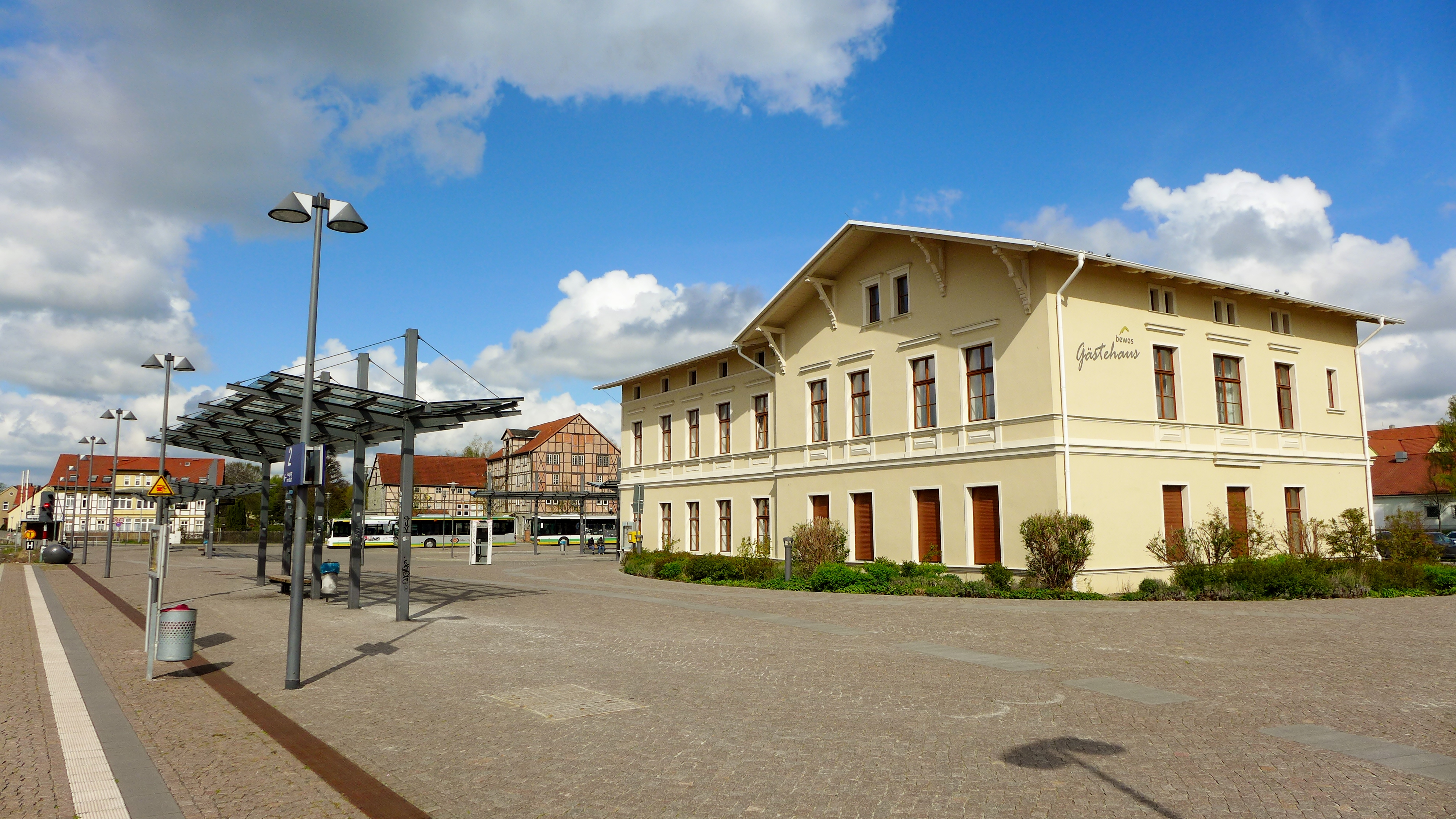 View of the renovated former post office building at Bahnhof Oschersleben (Bode).